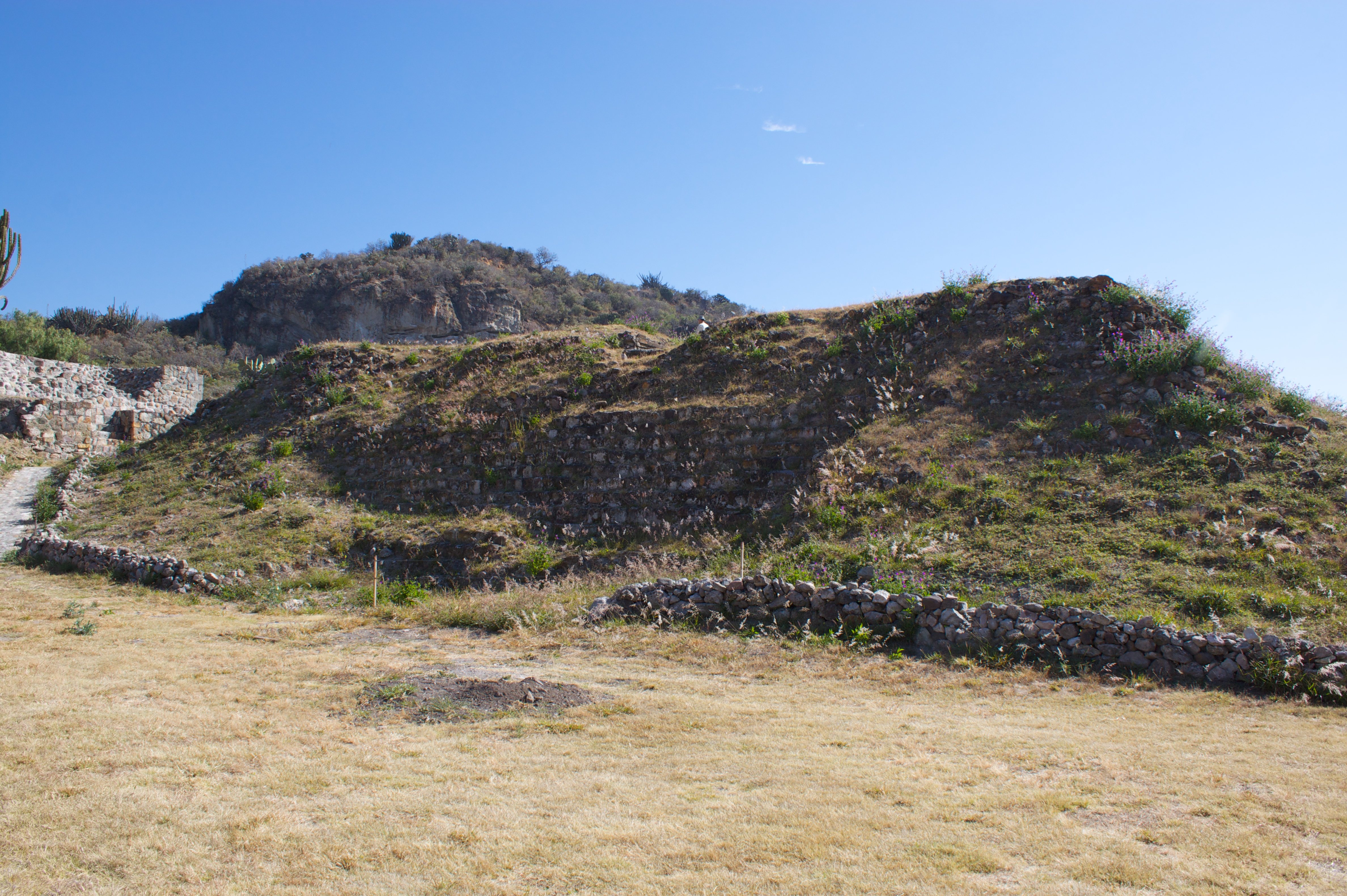 Yagul : Patio 4-5